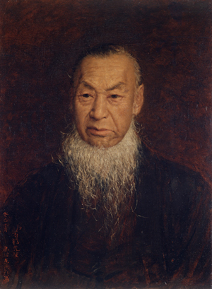 Portrait of Takahashi Yuichi, by Harada Naojiro, University Art Museum, Tokyo University of the Arts, Japan